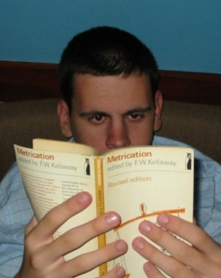 Picture of a friend reading a book